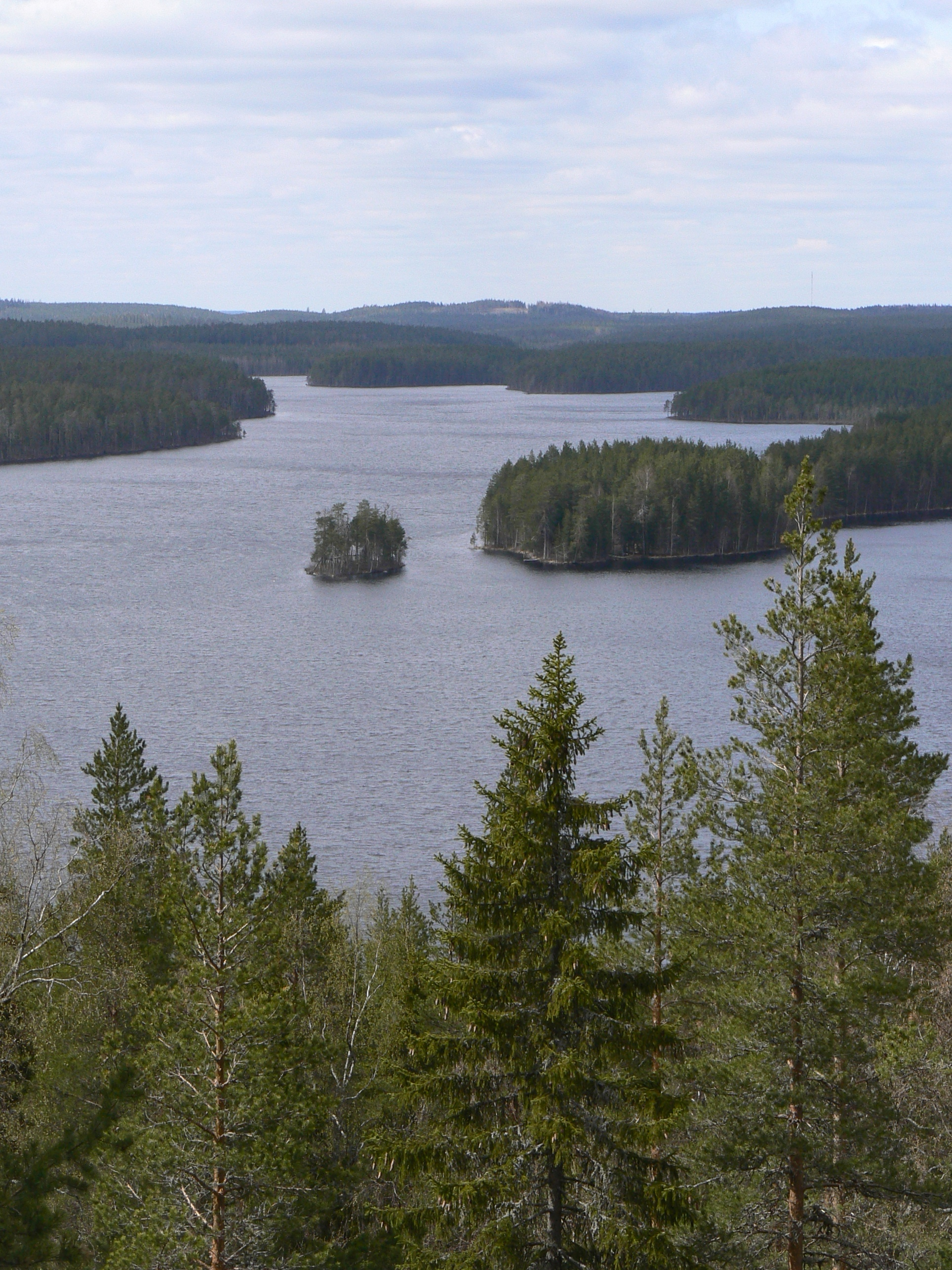 Lake Neitijärvi in the Ruunaa hiking area, seen from the observation tower atop the Huuhkajanvaara hill. Lieksa, Finland, May 2008